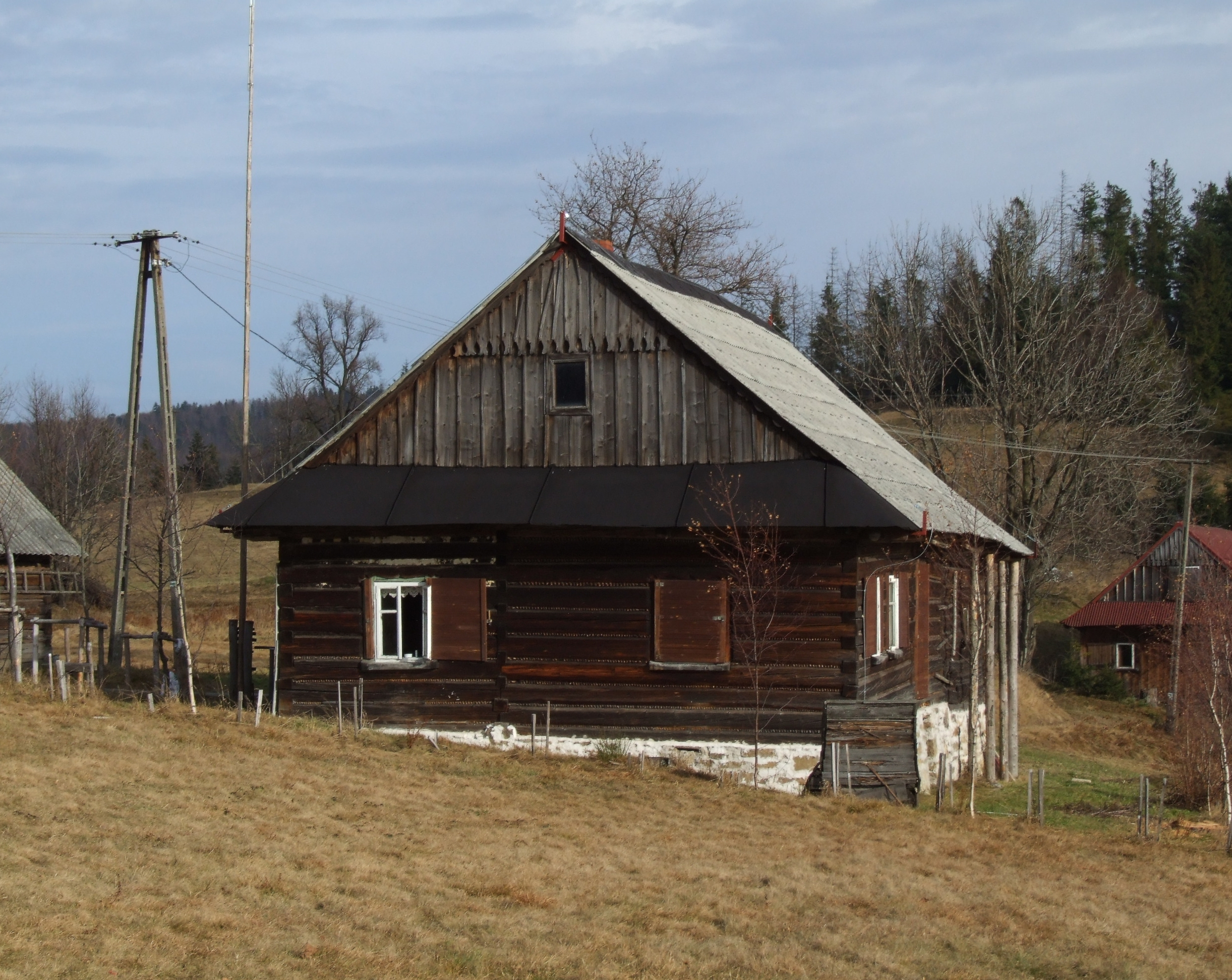 Mountain hostel Gibasówka, Beskid Mały, Poland